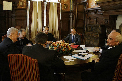 BARVIKHA, MOSCOW REGION. Talks with President of Moldova Vladimir Voronin, and Igor Smirnov, head of Transdniester.